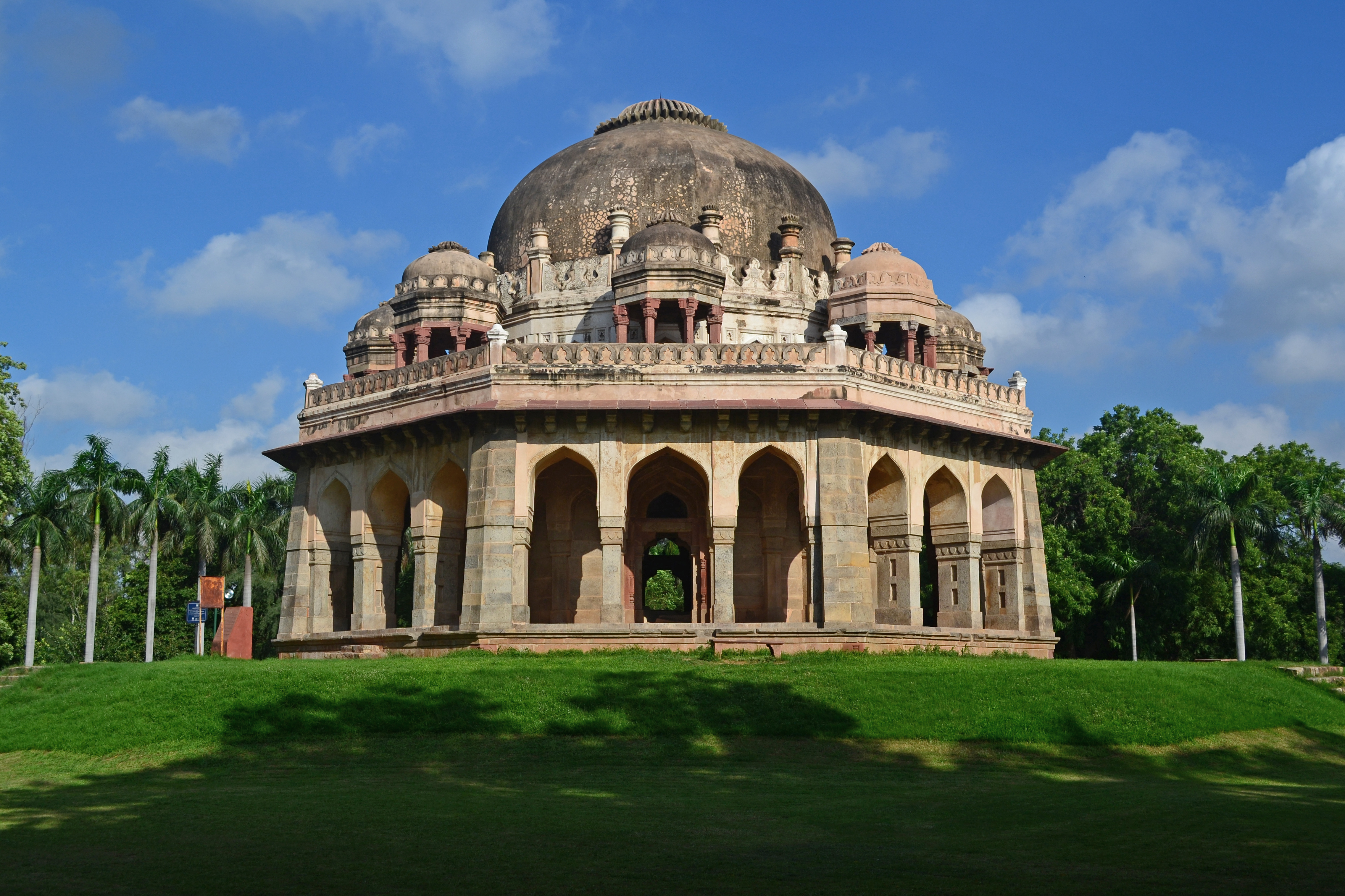 Mubarak Khan Ka Gumbaz which stands in Lodhi gardens, Delhi